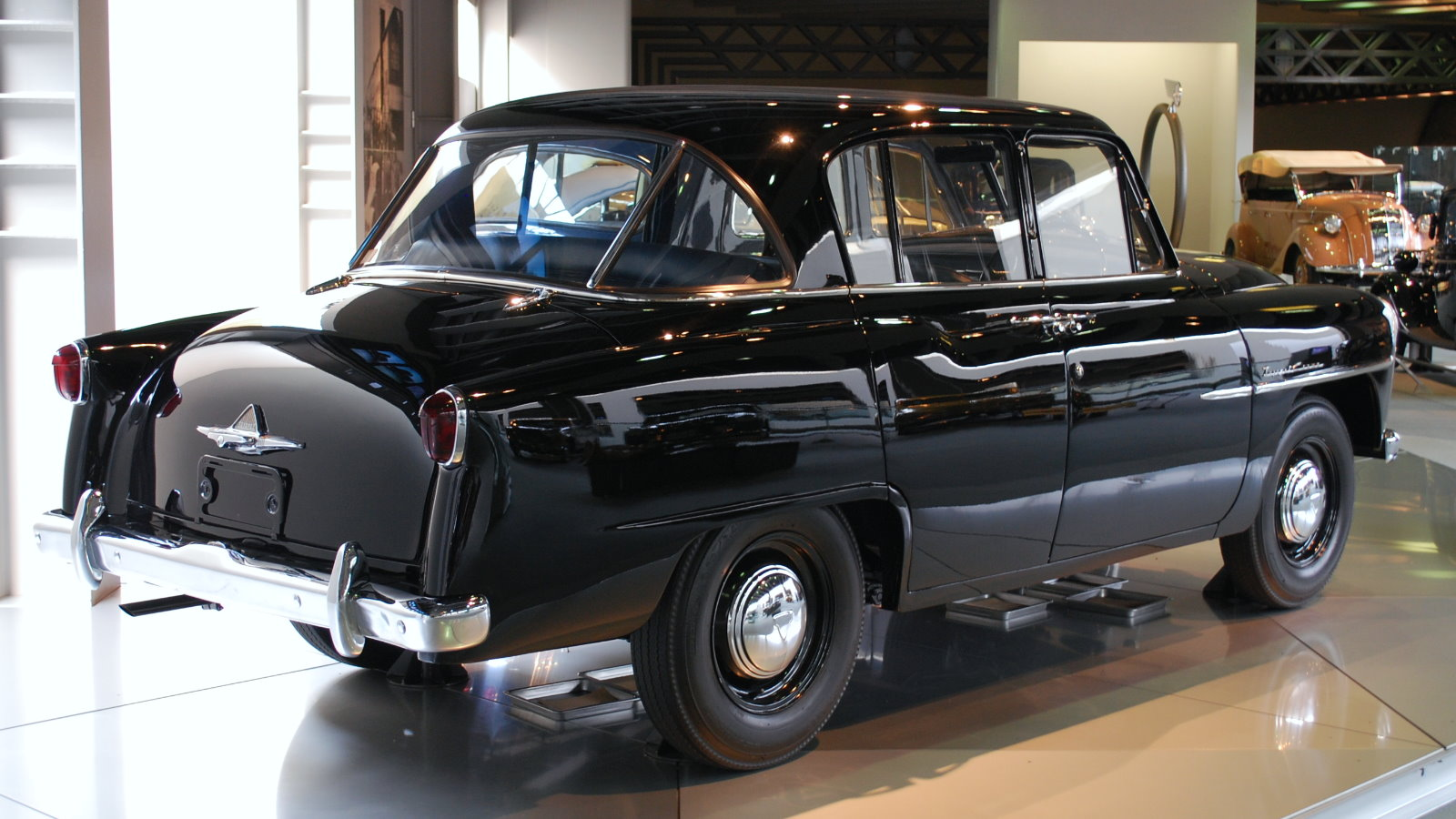 1st generation Toyopet Crown Model RS (1955/1 - 1958/10)